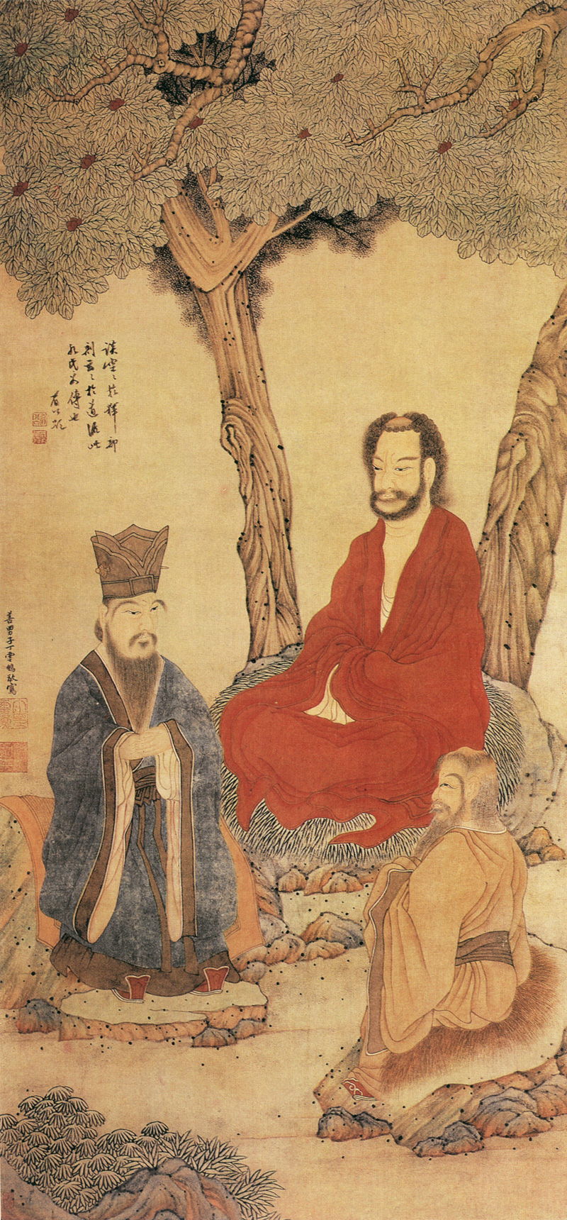 Confucius Lao-tzu and Buddhist Arhat (三教) Hanging scroll, ink and color on paper. Size 115.7 x 55.8 cm (height x width). Painting is located in the Palace Museum, Beijing. (See Barnhart, R. M. et al. (1997). Three thousand years of Chinese painting. New Haven, Yale University Press. ISBN 0-300-07013-6. Page 237)